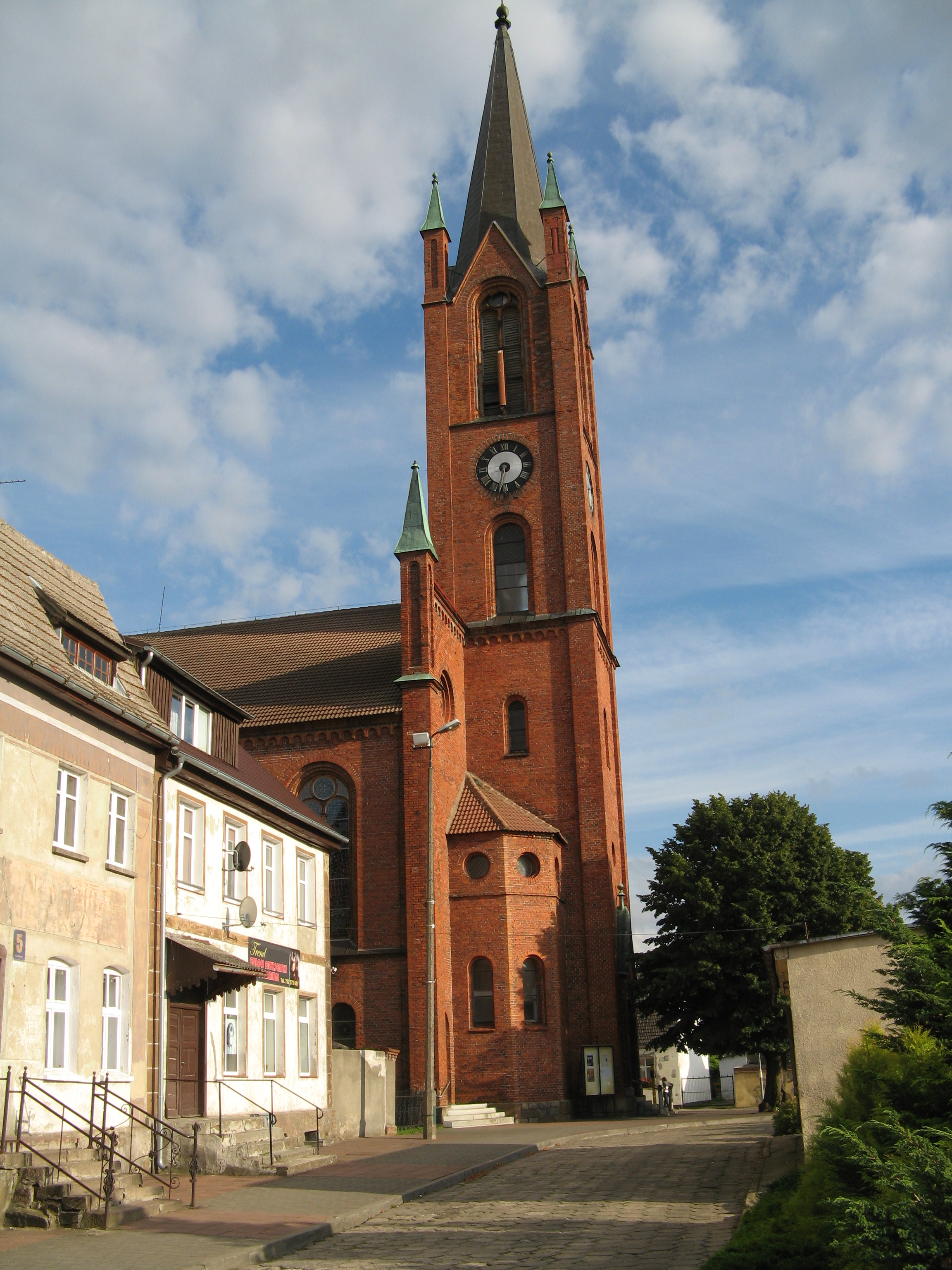 Church in Barwice